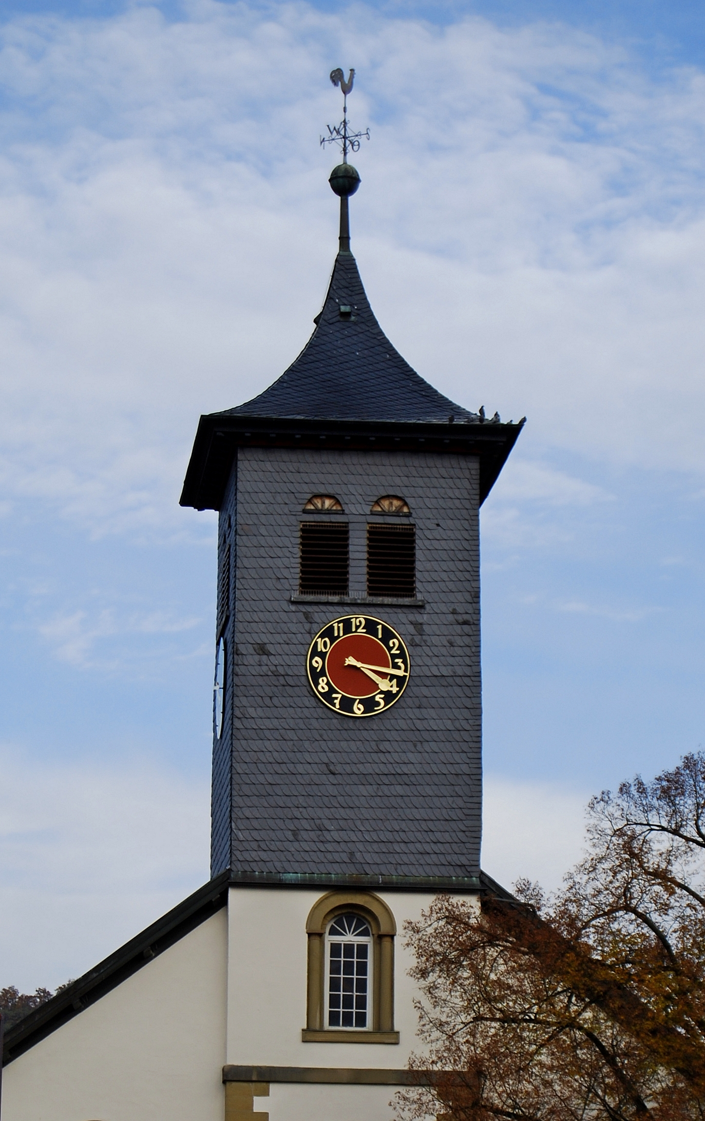 The tower of the church of Winzerhausen, Baden-Württemberg.